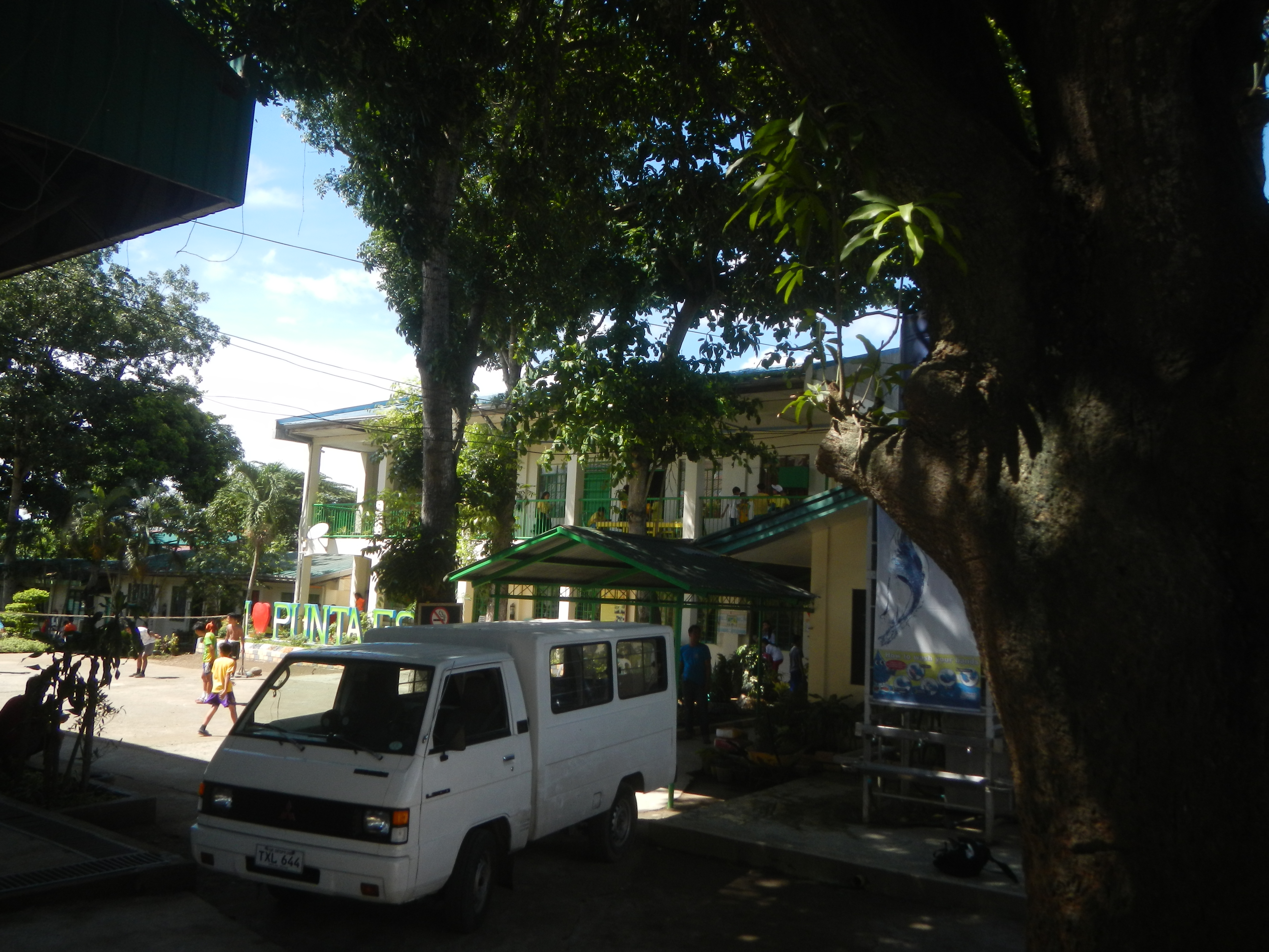 List of barangays in Laguna (province) Category:Barangays of Calamba, Laguna Barangay Punta, Calamba Punta 14.1772, 121.1209 Calamba, Laguna from Mayapa accessed from South Luzon Expressway to National Highway (Calamba Poblacion-Mayapa) of Maharlika Highway (Calamba City section) Pan-Philippine Highway Philippine highway network (Note: Judge Florentino Floro, the owner, to repeat, Donor Florentino Floro of all these photos hereby donate gratuitously, freely and unconditionally Judge Floro all these photos to and for Wikimedia Commons, exclusively, for public use of the public domain, and again without any condition whatsoever).